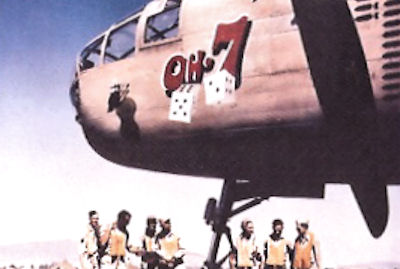 B-25C 41-13207 with nose art "OH-7" and dice, 445th Bombardment Squadron, 321st Bombardment Group at Ain M'lila Airfield, Algeria, March 1943. Photo shows its six crew members at the bomber prior to the start of a combat mission. (USAAF Photo)